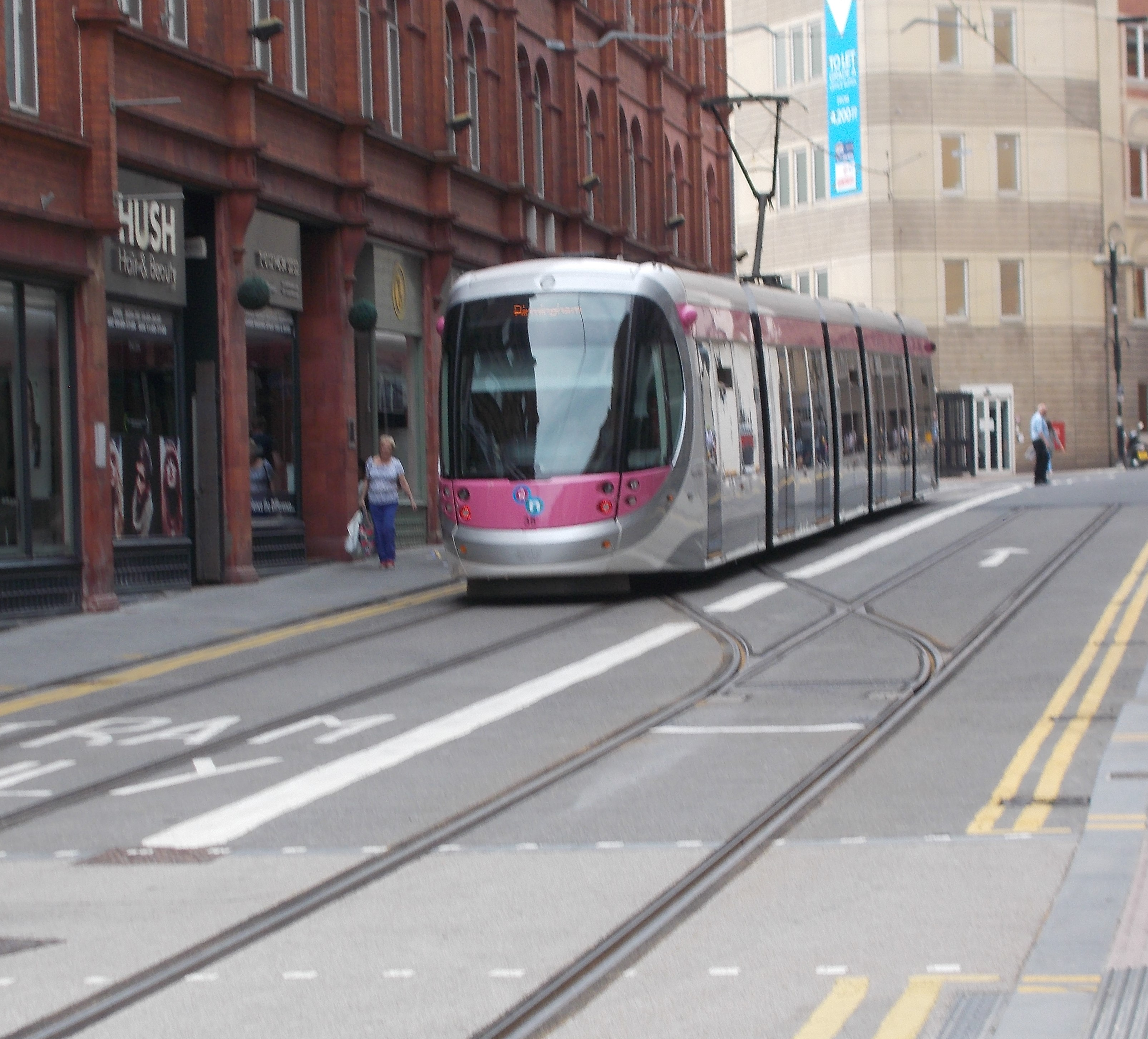 In June 2016, shortly after the opening of the extension to Grand Central (New Street Station), a tram stands on the reversing spur in Stephenson Street. The extension to Centenary Square will contine to the right behind the tram along Pinfold Street.